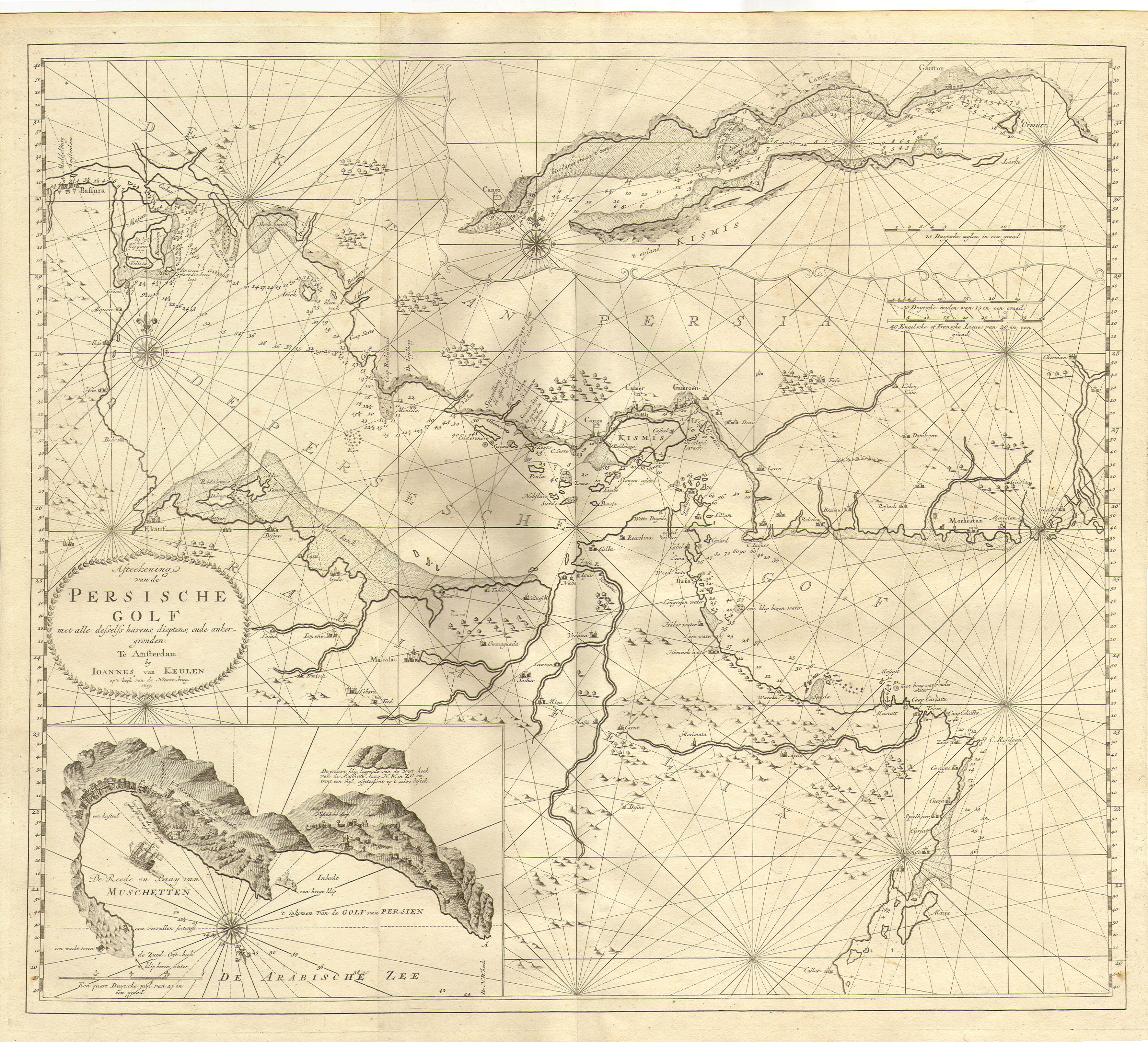 Afteekening van de Persische Golf - Produced in Amsterdam FIRST edition : 1753 Produced using copper engraving